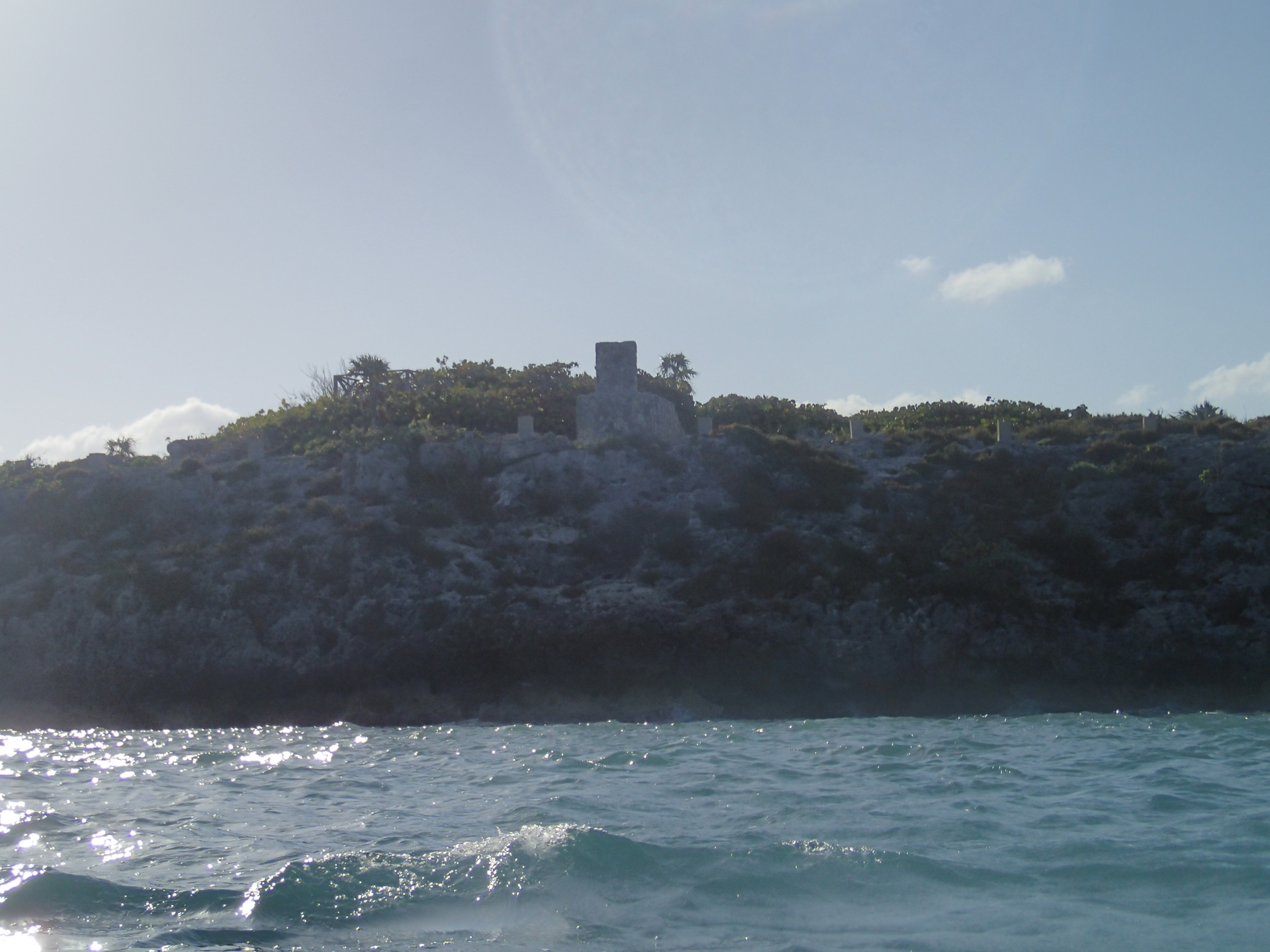 Wreck of the Ten Sails monument from the water.